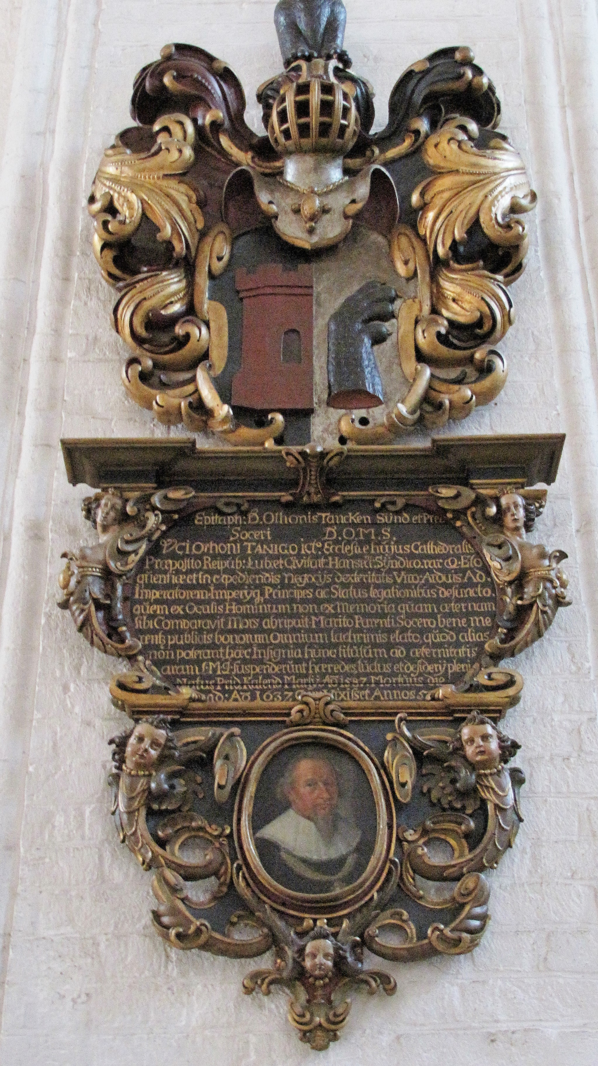 Epitaph for Otto Tank (1587-1637) with portrait by Michael Conrad Hirt.